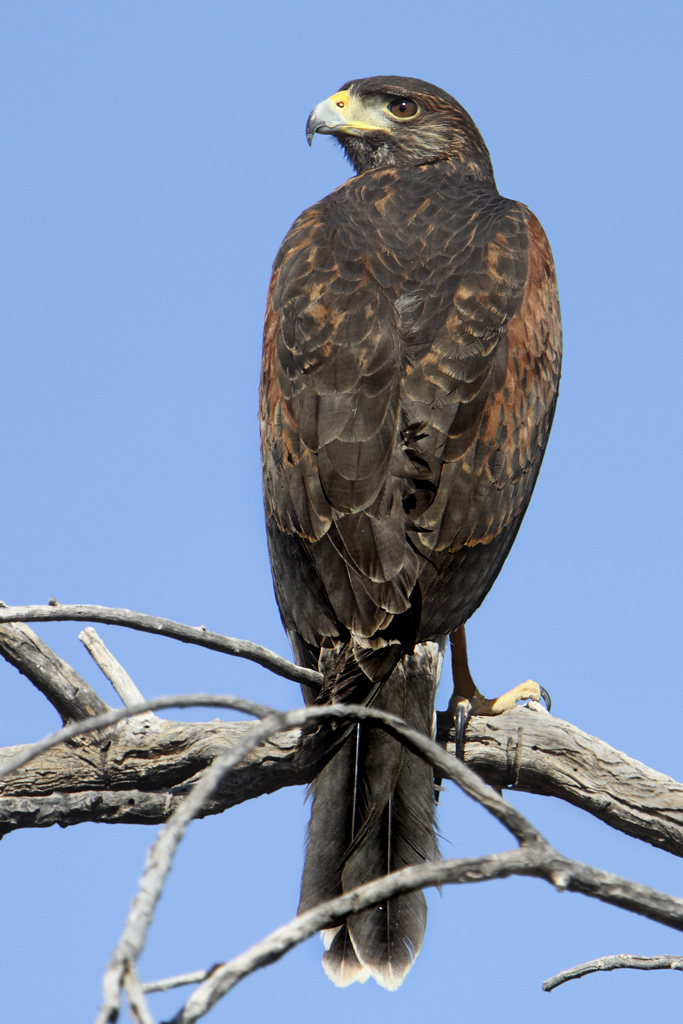 The Harris's Hawk is famous for its remarkable behavior of hunting cooperatively in "packs", consisting of family groups. Most raptors are solitary hunters. Reference